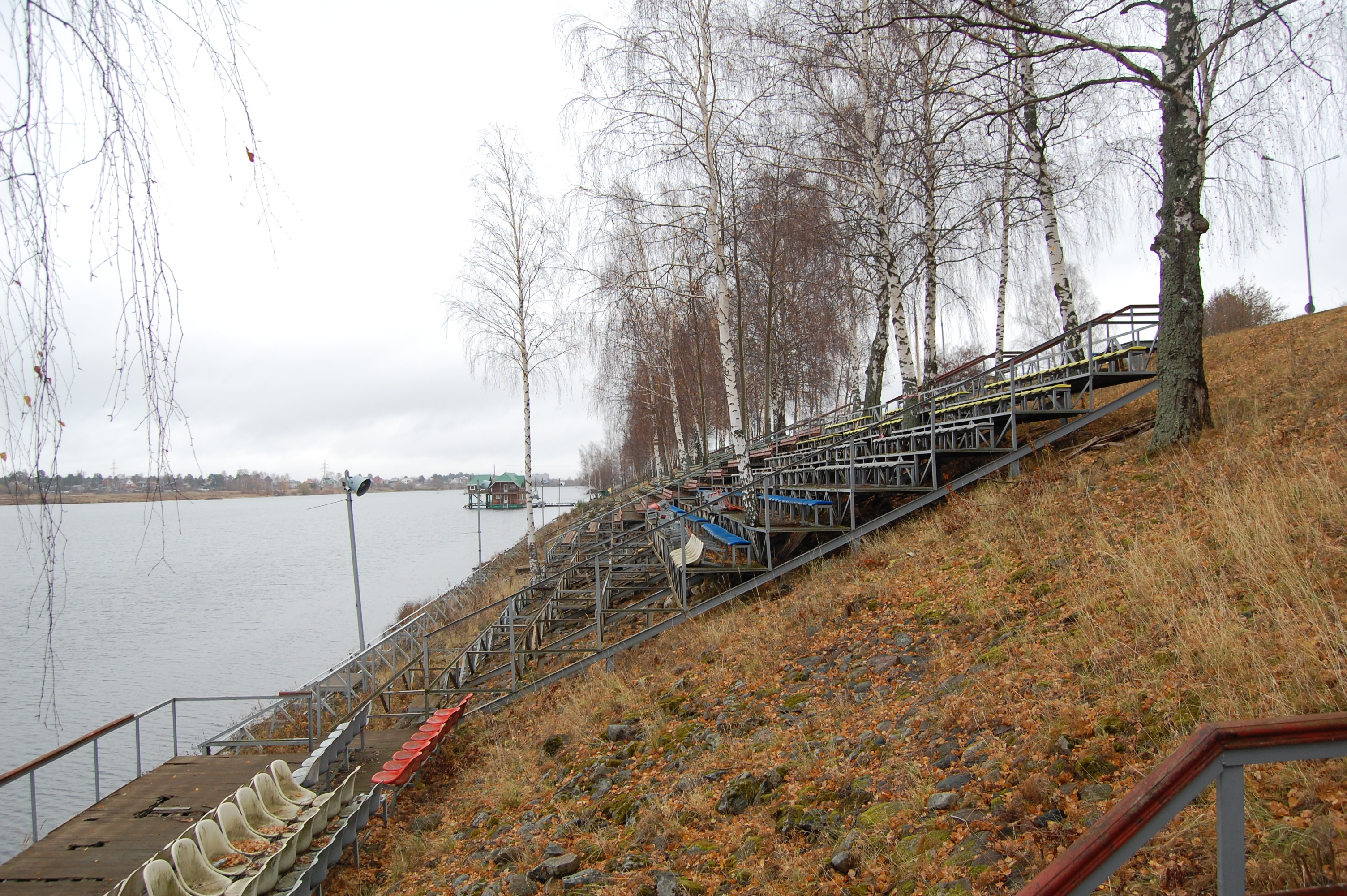 Nekhaevsky Water Stadium in Dubna, Moscow oblast